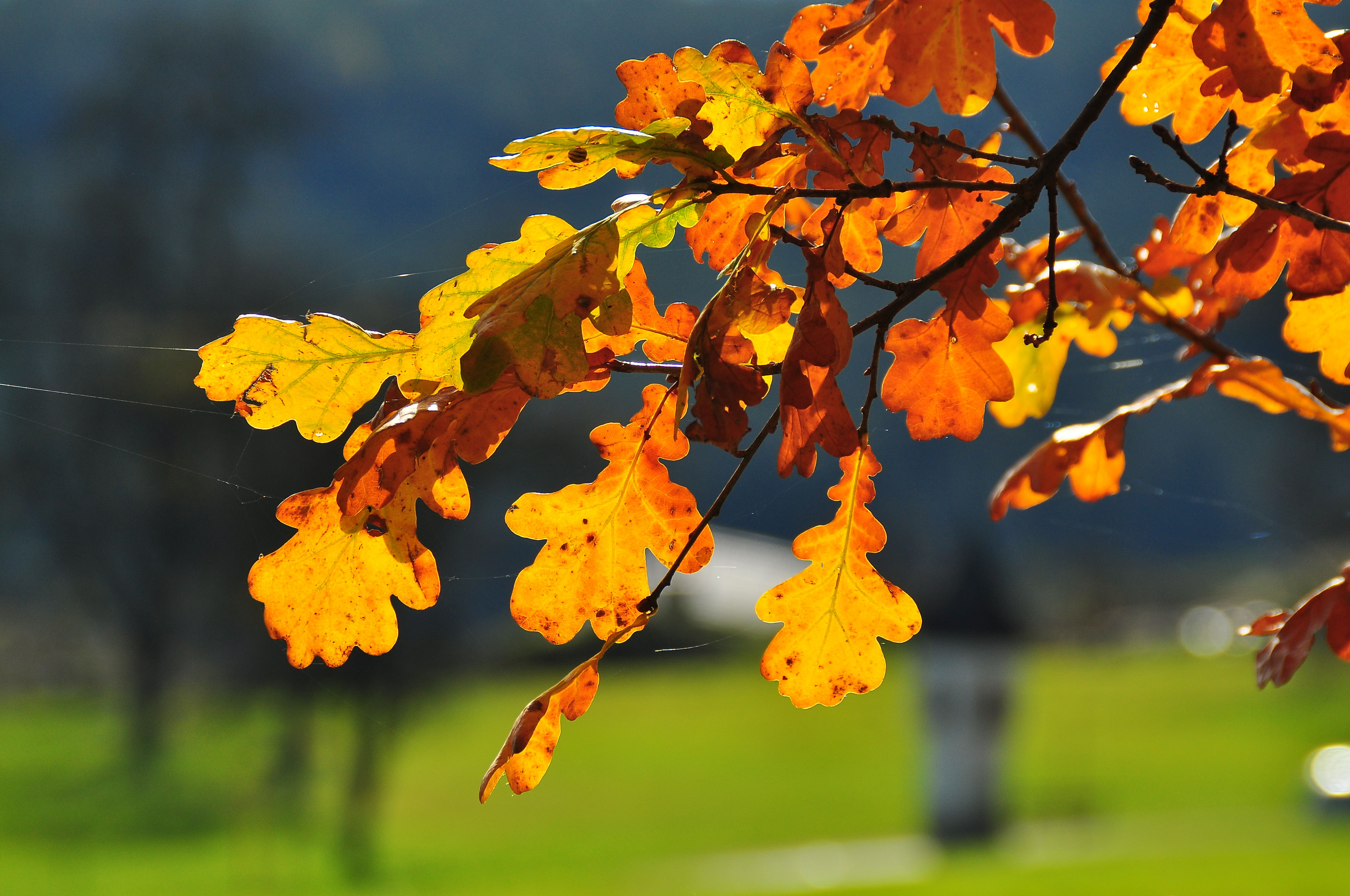 Autumnal oak-leaves near the village Koestenberg in the community Velden on the Lake Woerth, district Villach-Land, Carinthia, Austria